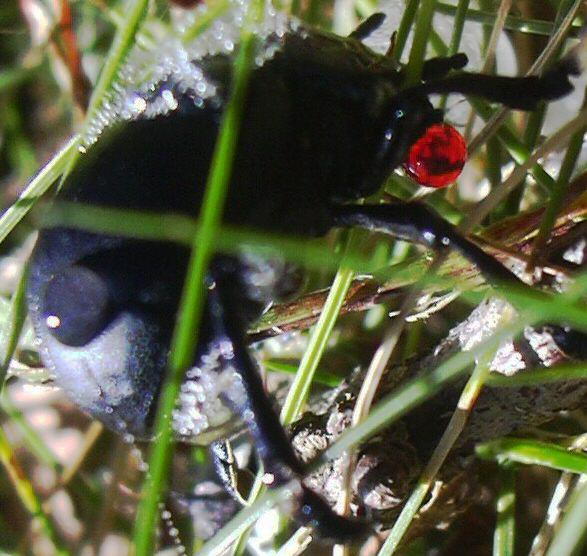 Timarcha tenebricosa [crache-sang]